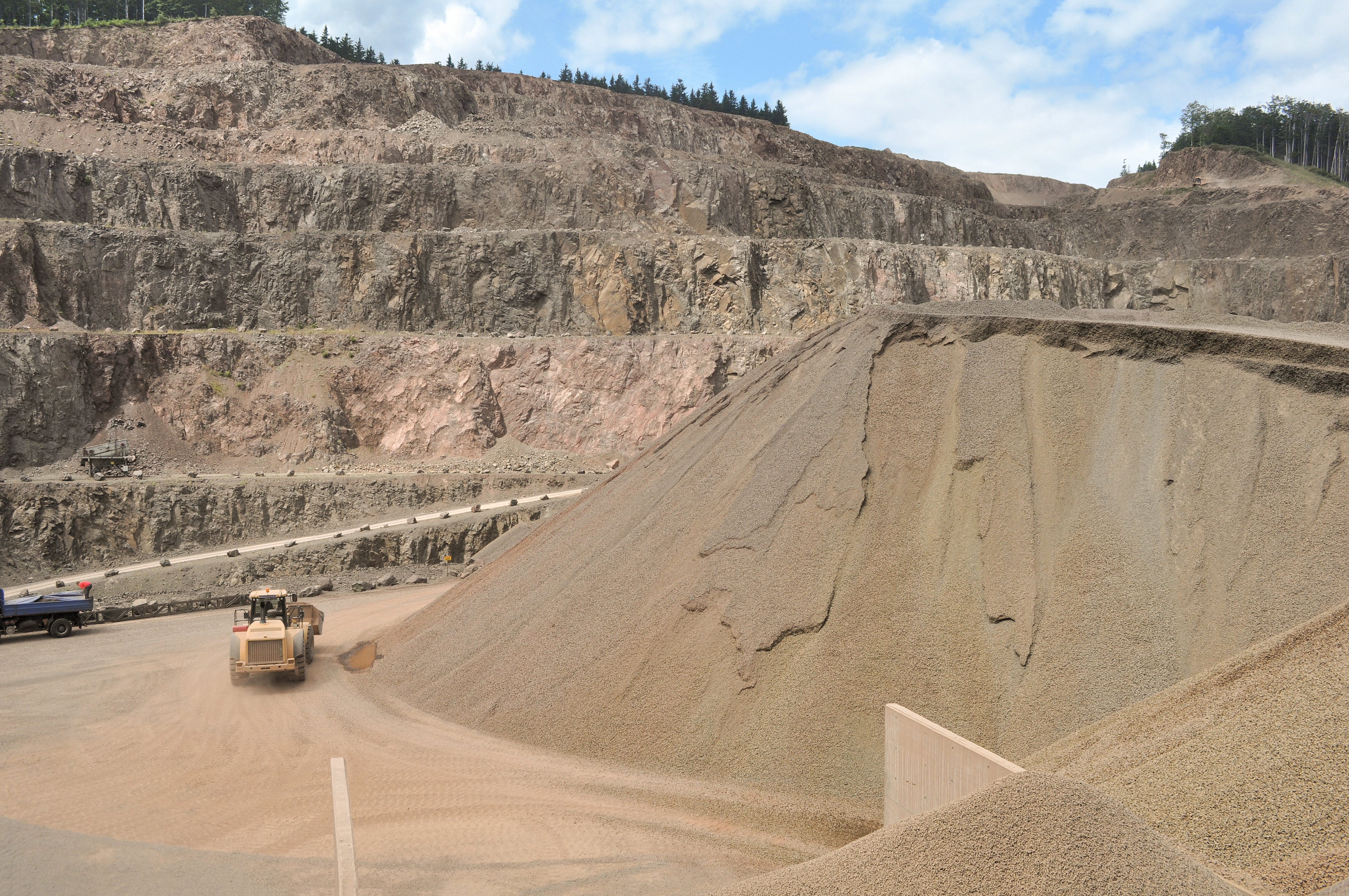 Quarry in Rybnica Leśna